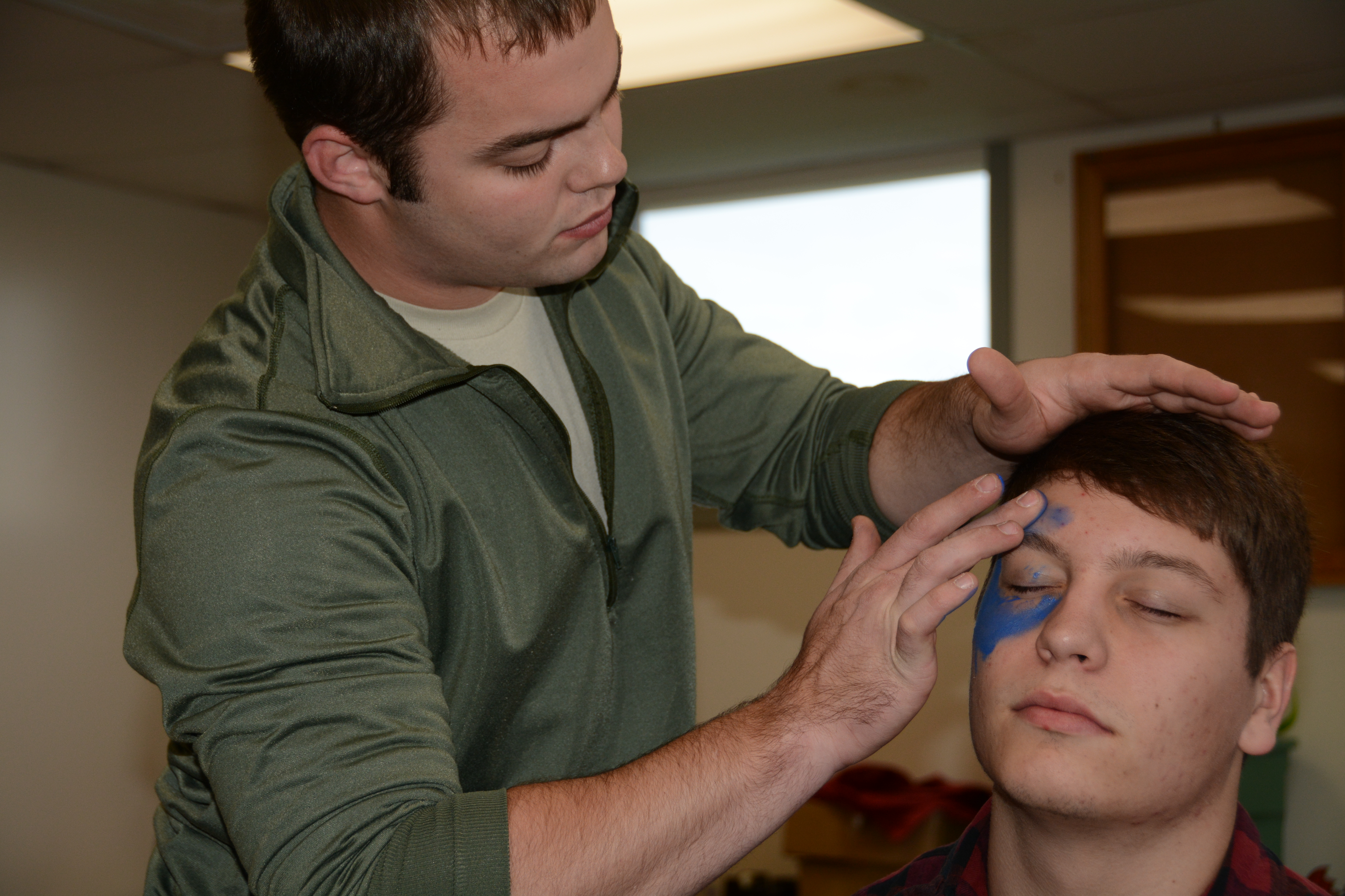 Senior Airman Greg Meyer, 512th Aerospace Medicine Squadron, applies makeup onto the face of Delaware Civil Air Patrol cadet John Boyer Nov. 2, 2014, at Dover Air Force Base, Del. Boyer and other CAP cadets played the roles of victims during a training exercise to prepare 512th AMDS reservists to respond to real world mass casualty emergencies. (U.S. Air Force photo/Senior Airman Joe Yanik)